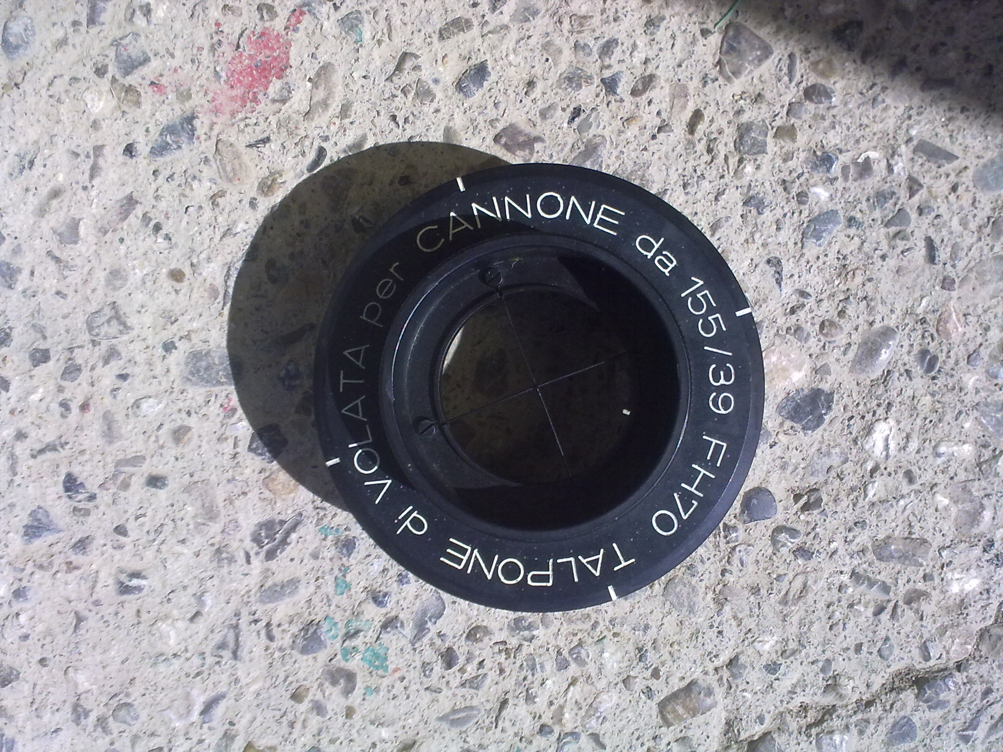 reticule of a gun collimator for the FH70 field howitzer